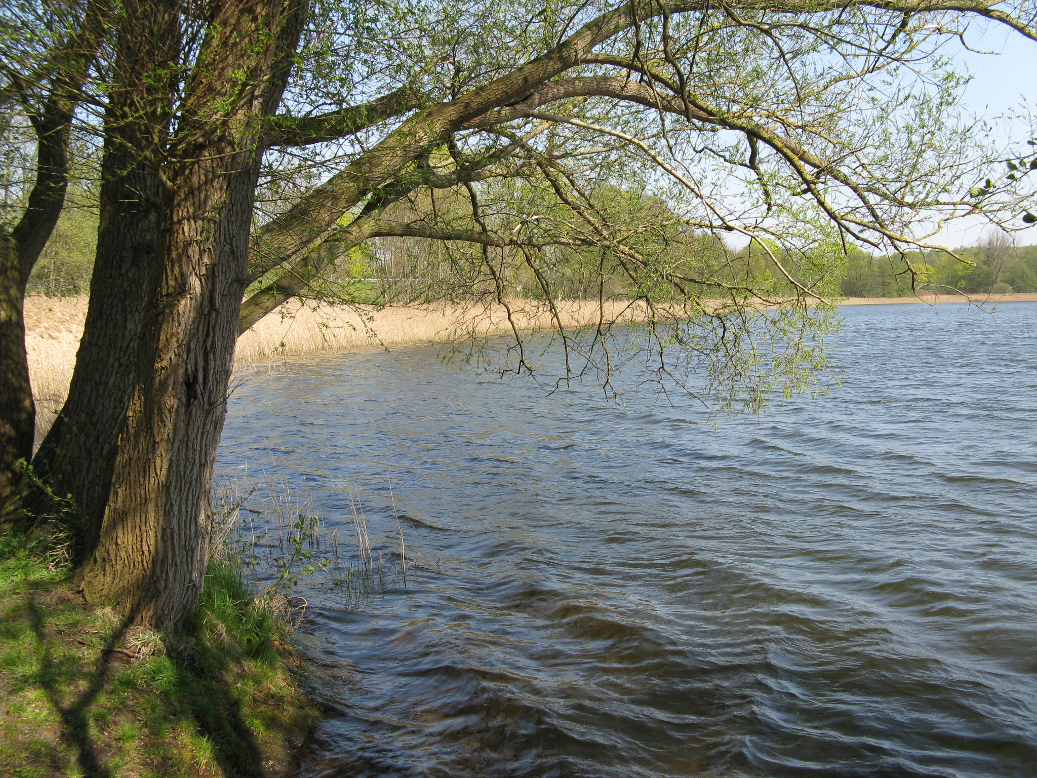 Lake Dabeler See in Dabel, disctrict Parchim, Mecklenburg-Vorpommern, Germany